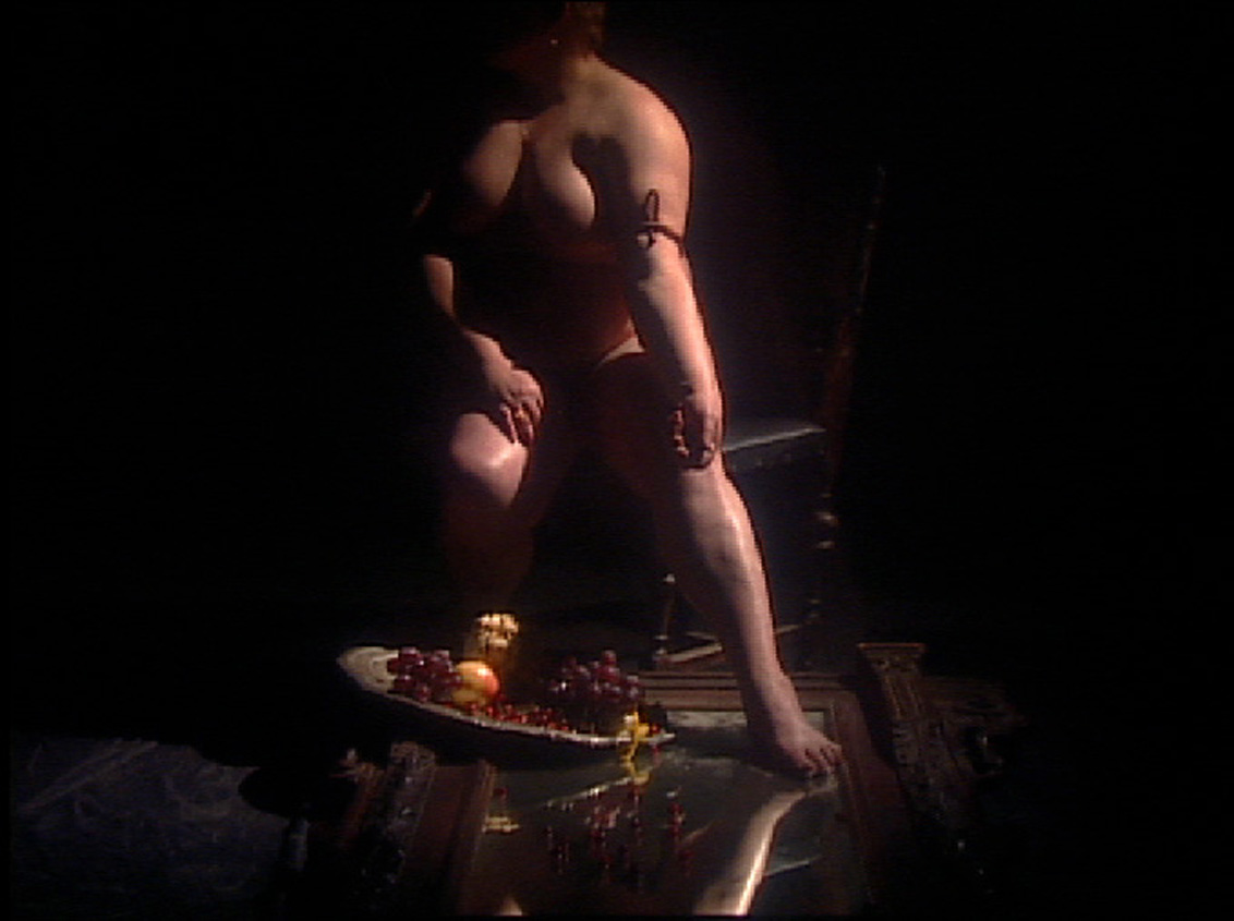 Still from Underground movie by Ihor Podolchak